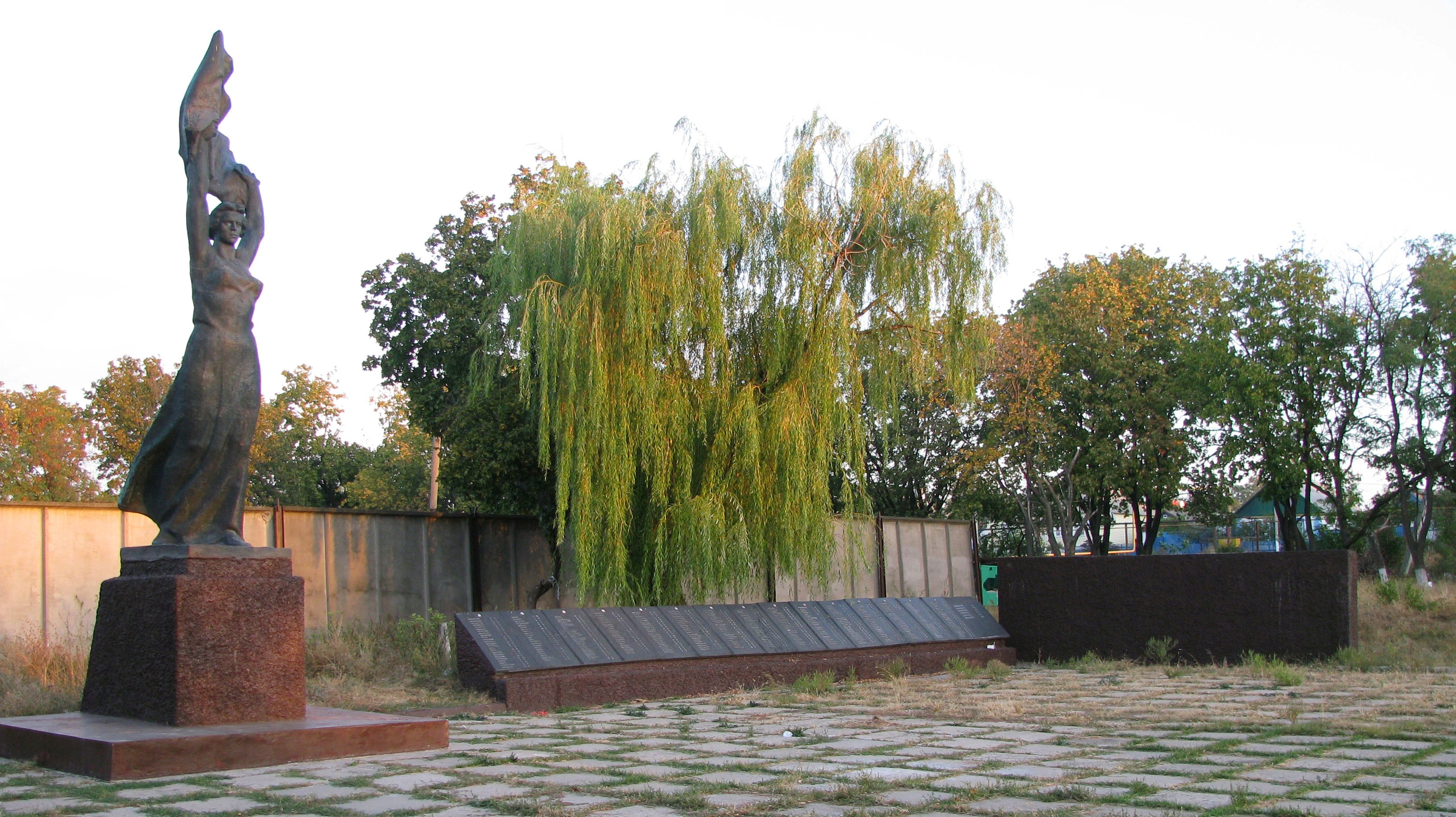 Stele in Birukovo, Lugansk Oblast, Ukraine